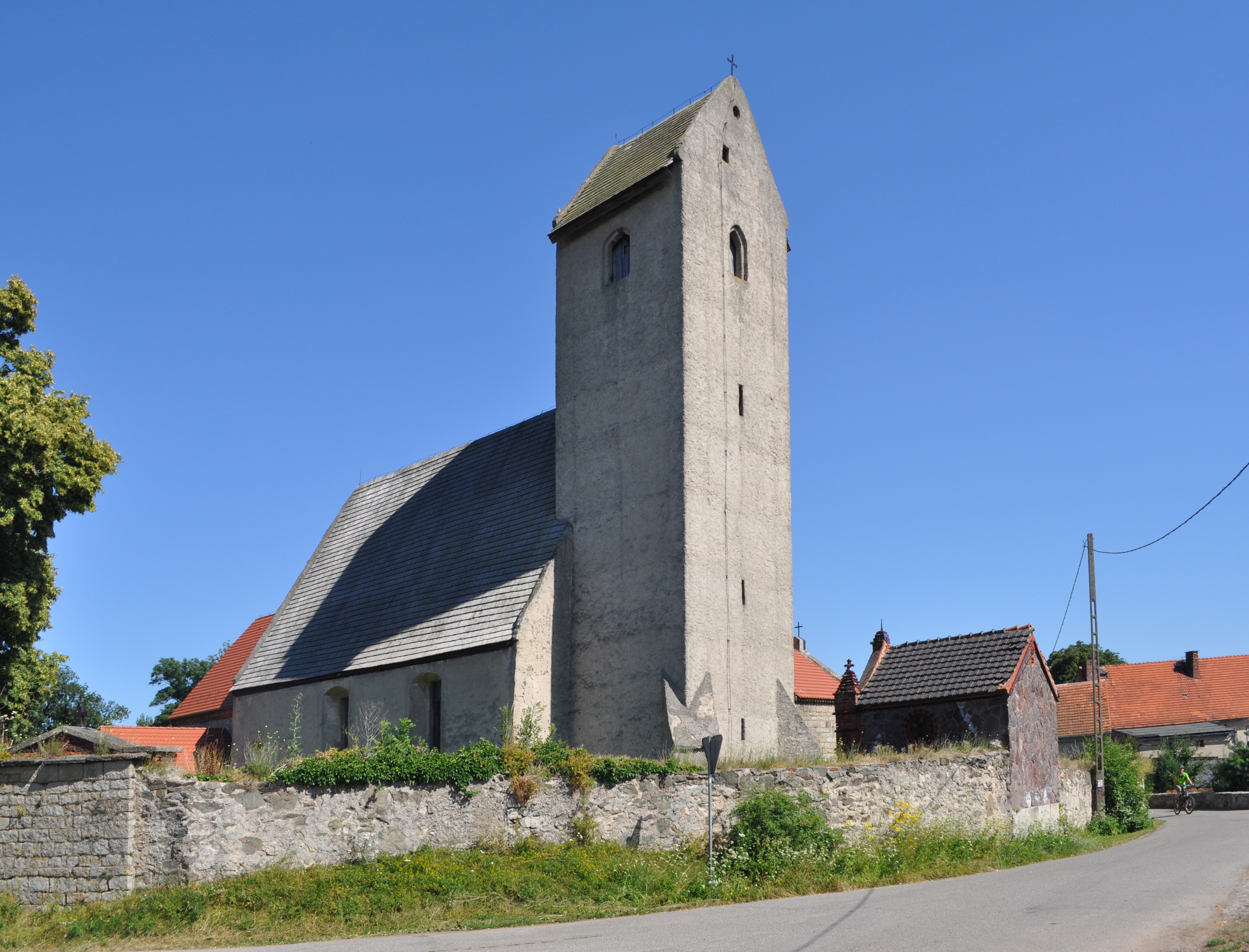 Exaltation of the Holy Cross church in Wiadrów, Poland